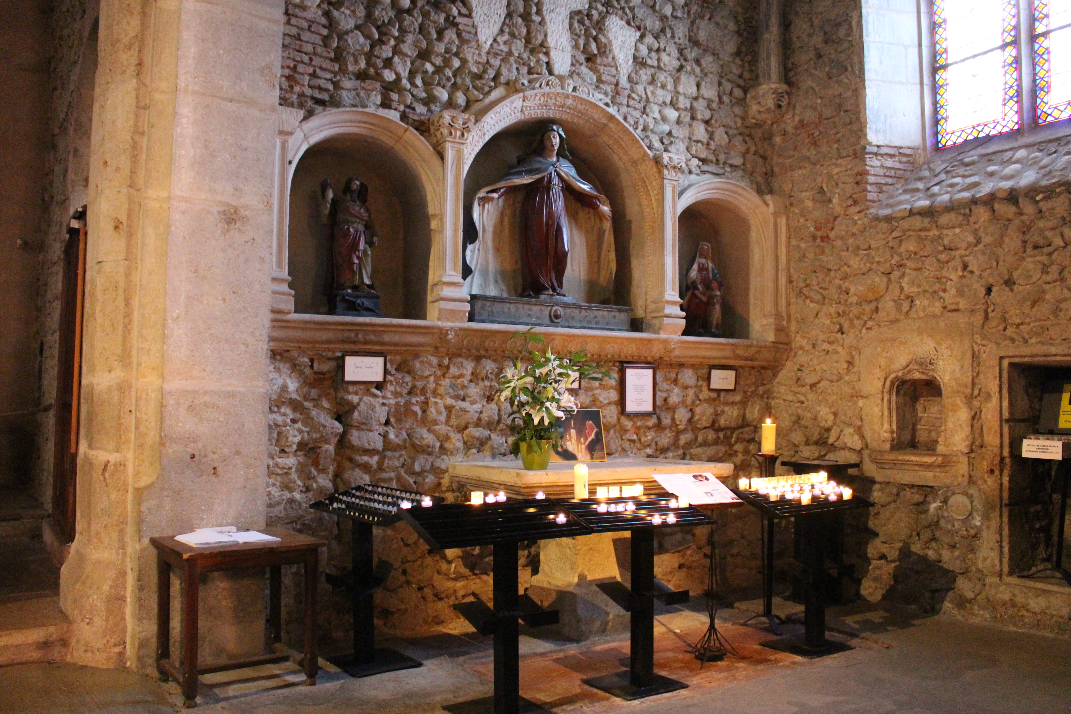 The interior of the Medieval Church of Pérouges (France).